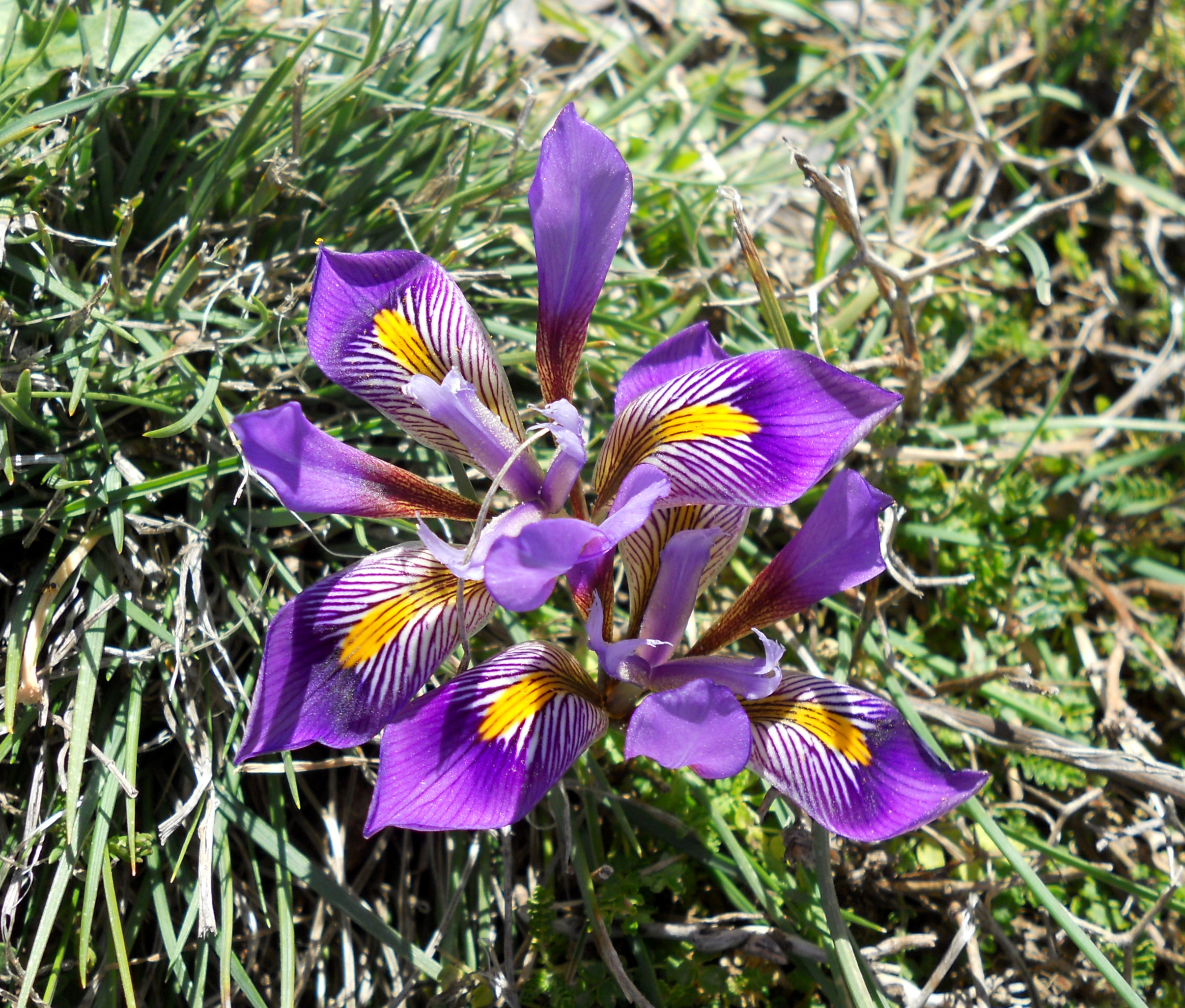 This is a photography of Natura 2000 protected area with ID GR4320002